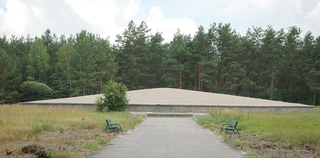 Poland, Sobibor - mausoleum in extermination camp.